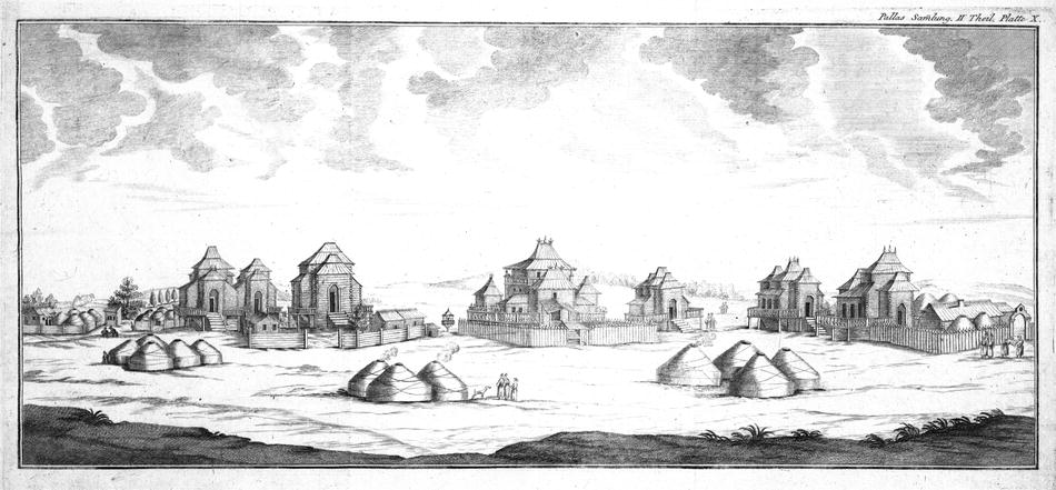 Mongolian settlement in the eighteenth century